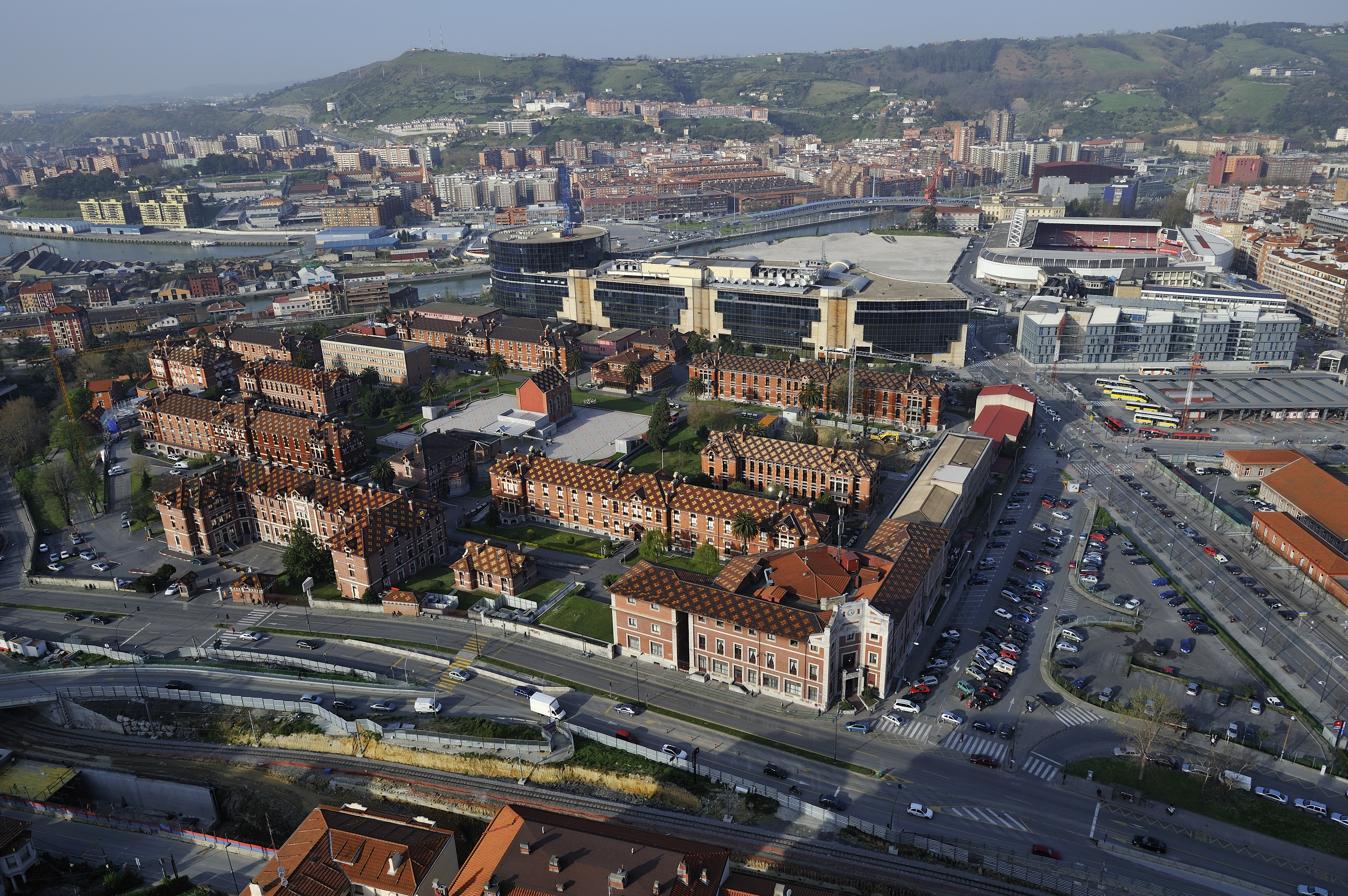 Hospital of Basurtu. Bilbo, Bizkaia. Basque Country.